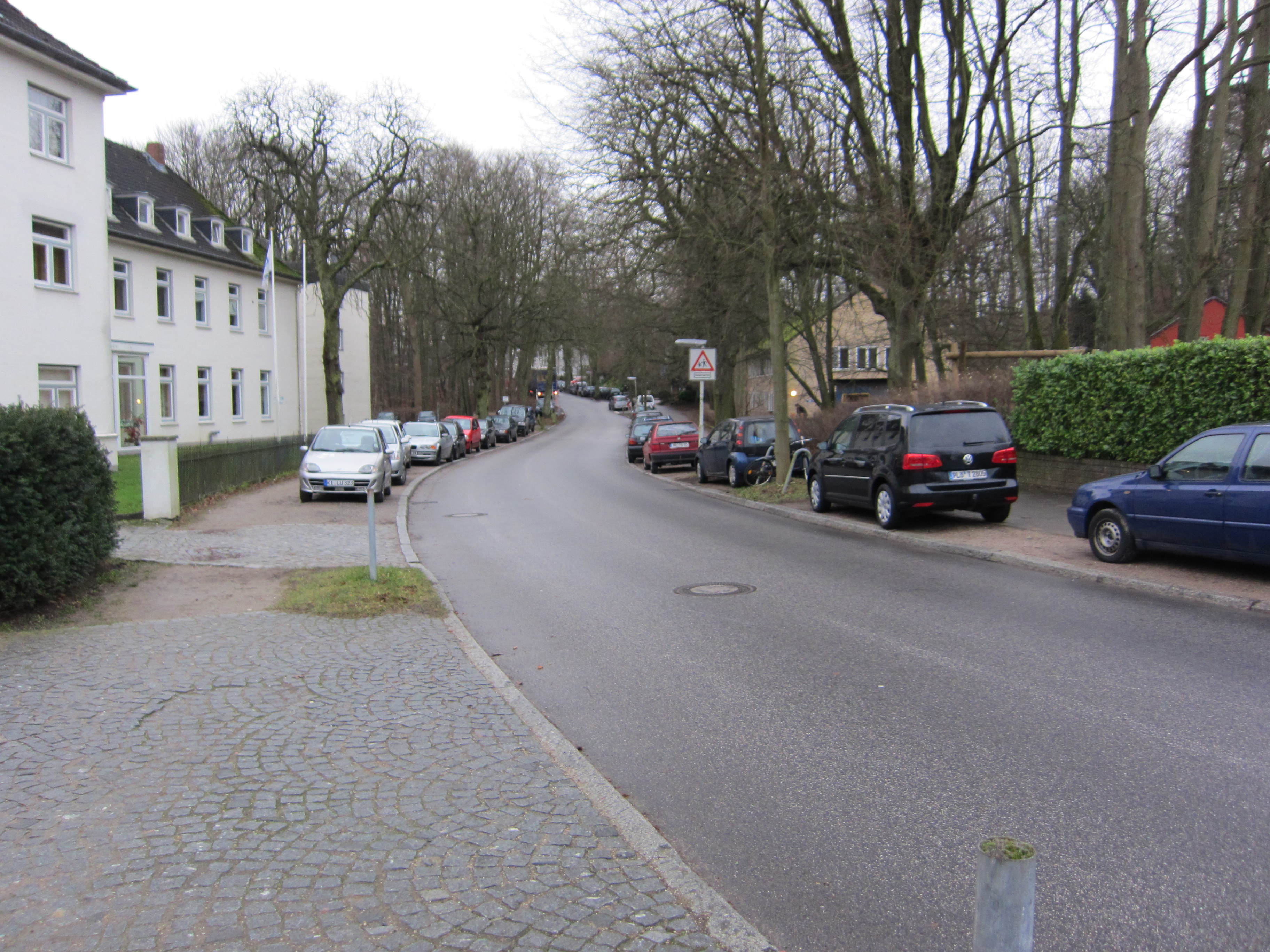 Street "Niemannsweg" in Kiel-Düsternbrook